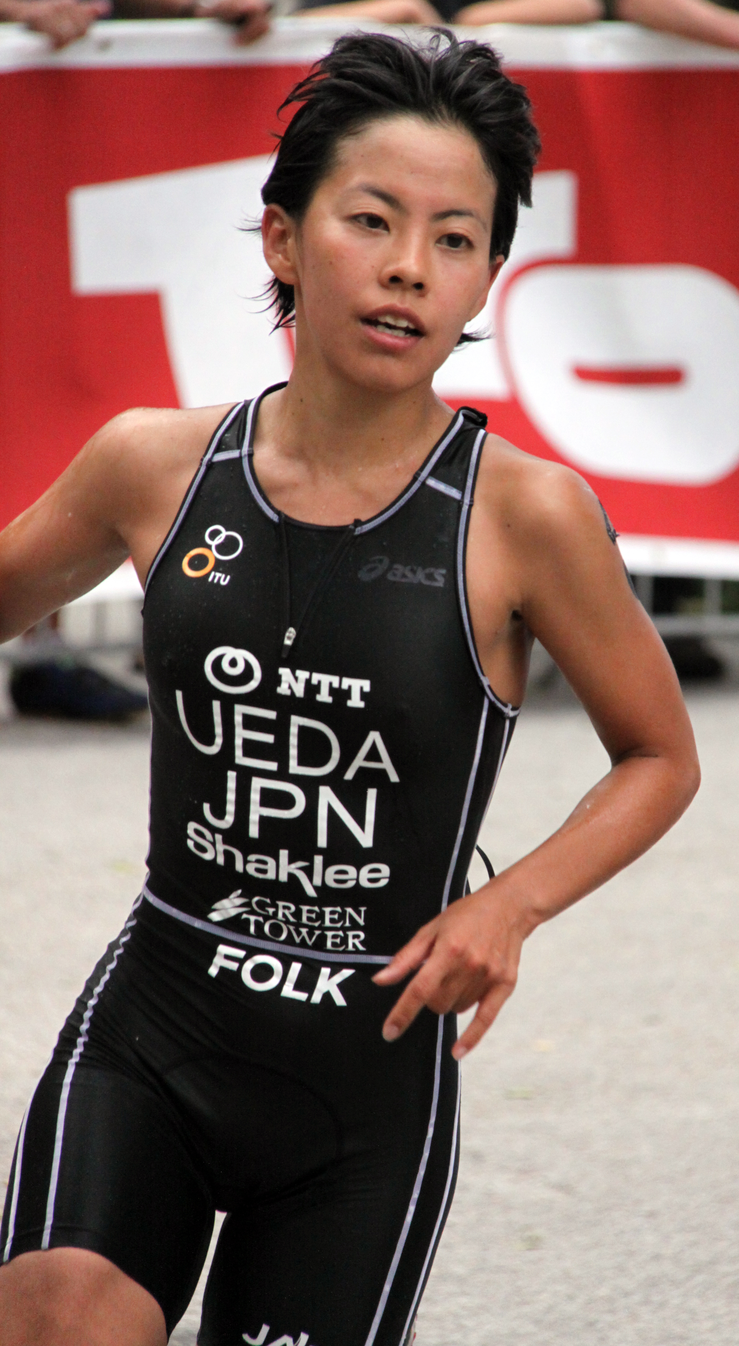 Ai HUEDA at the World Championship Series Triathlon in Kitzbuhel, 2010.